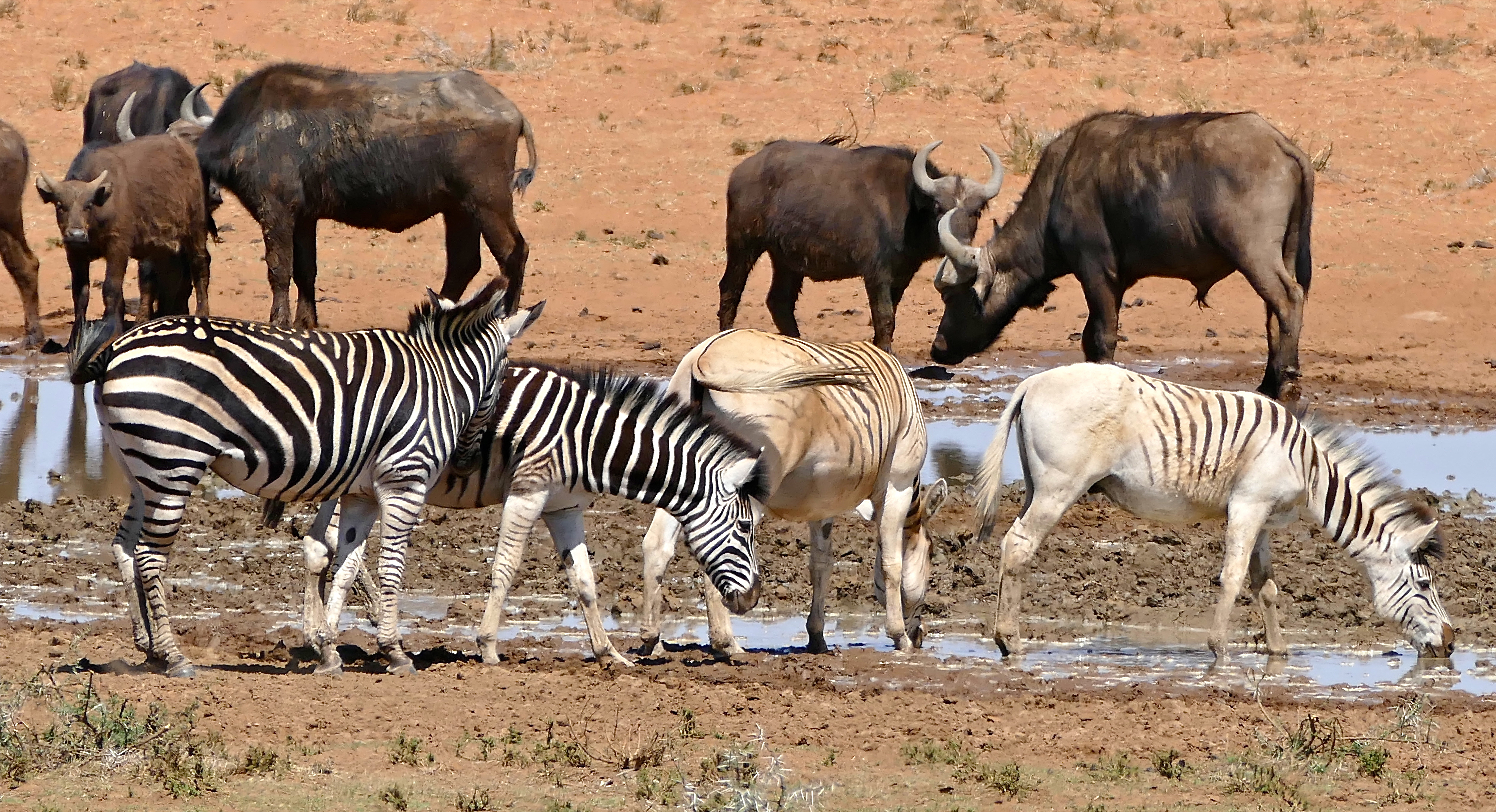 Lilydale Area, Mokala NP, Northern Cape, SOUTH AFRICA